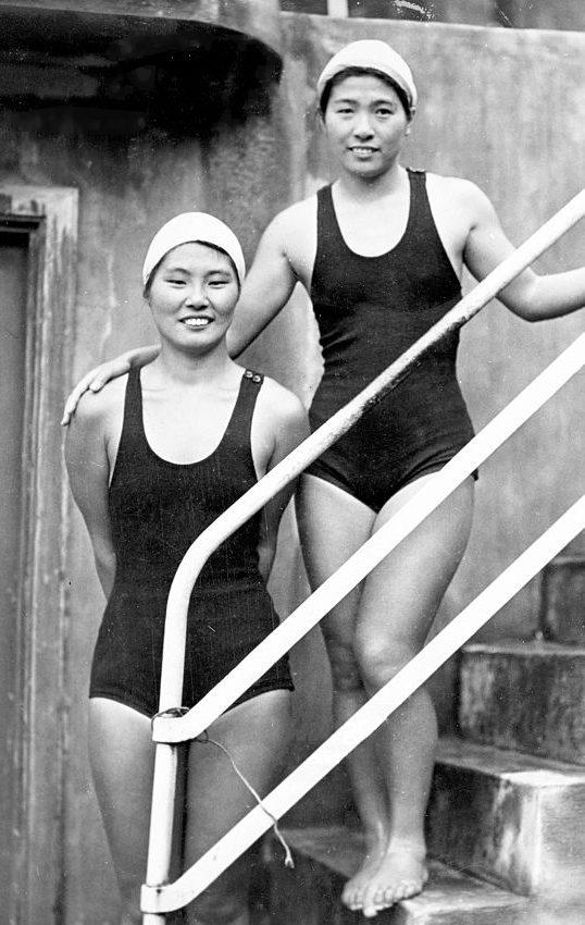 Divers Reiko (left) and Masayo Osawa at the 1936 Olympics